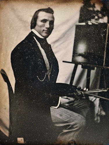 Portrait of the Swedish painter Marcus Larson in front of his easel